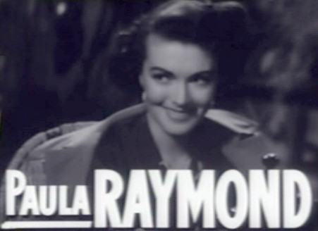 Cropped screenshot of Paula Raymond from the trailer for the film Crisis.